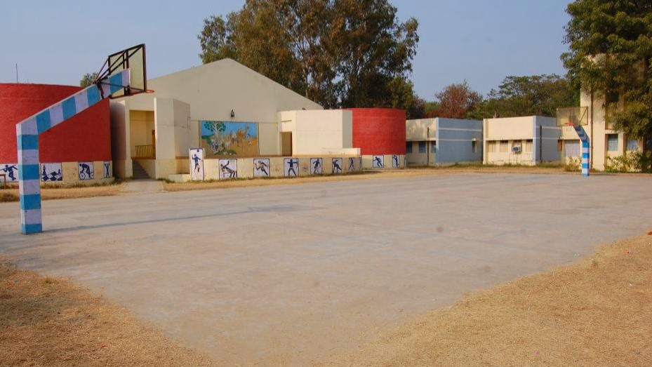 Basketball ground at JNV, Paota, Jaipur